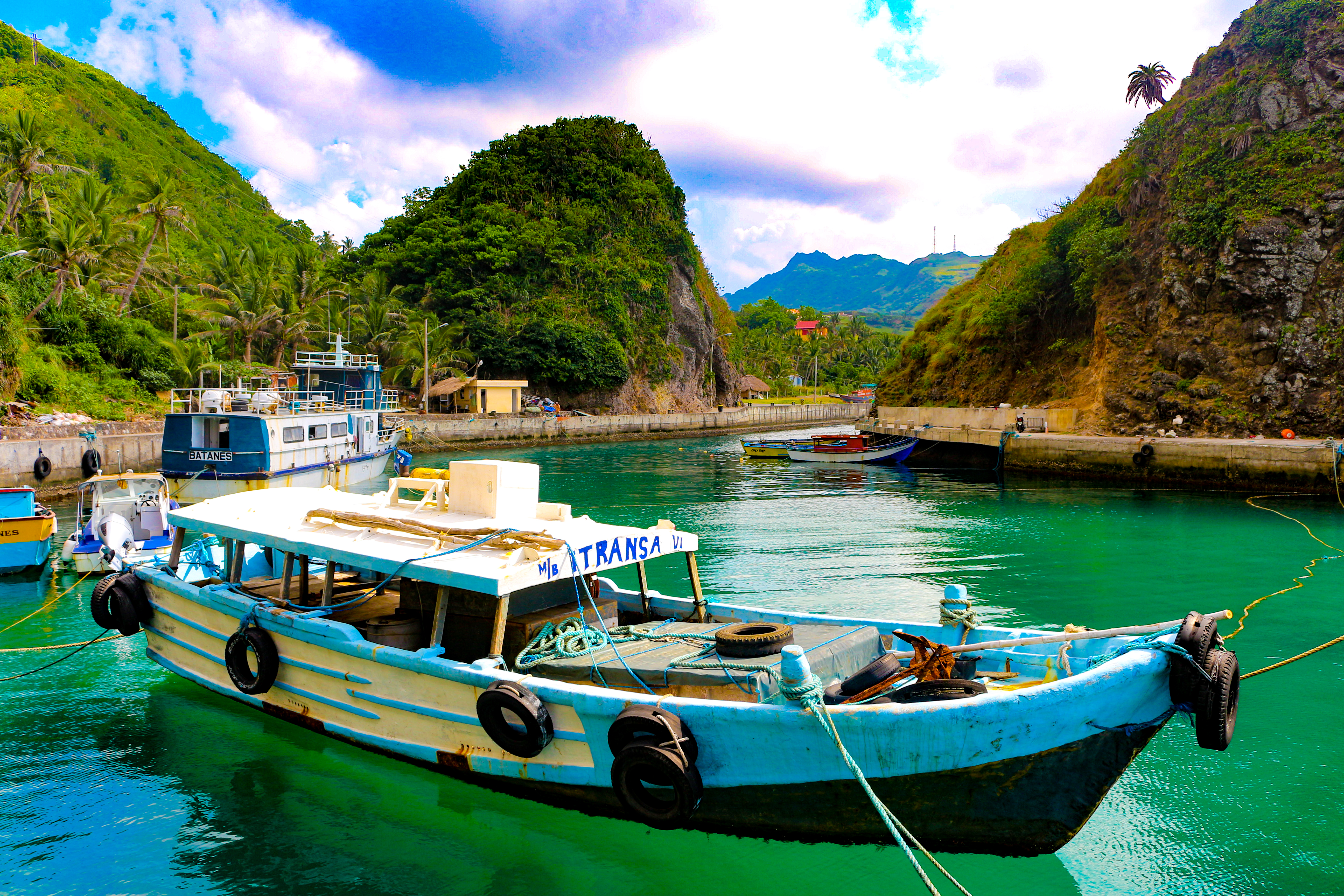 Glendale lapastora / Corazon lapastora / Nelzo ereful / Lapastora ereful amarante castillejos cardona panganiban clan